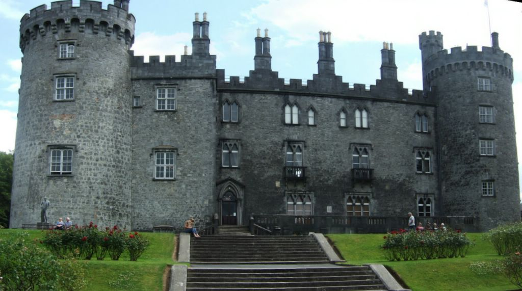 A rear view of Kilkenny Castle in Ireland.